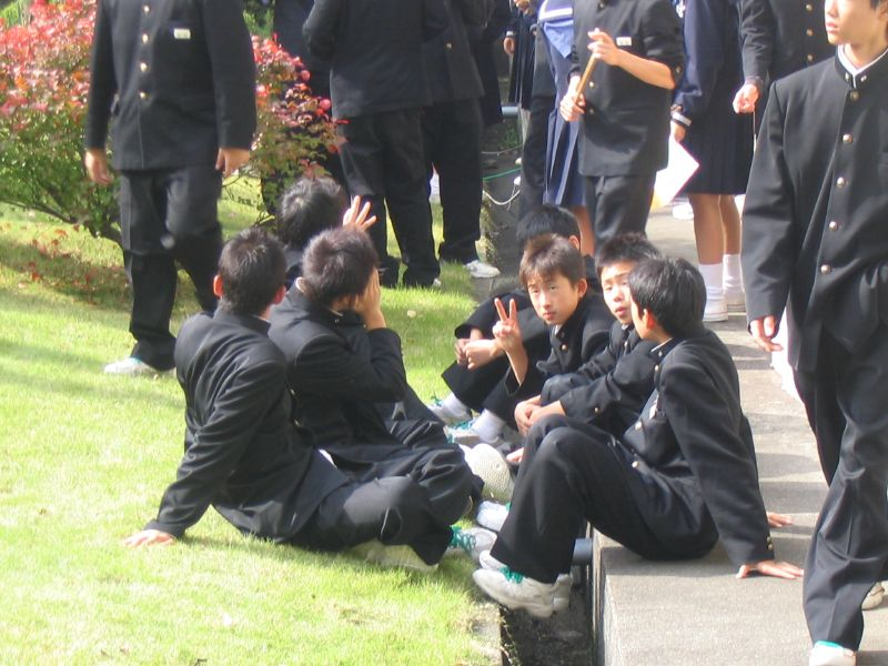 Students socializing in the courtyard at Demachi Jr. High, Tonami City, Toyama, JAPAN 富山県砺波市立出町中学校.